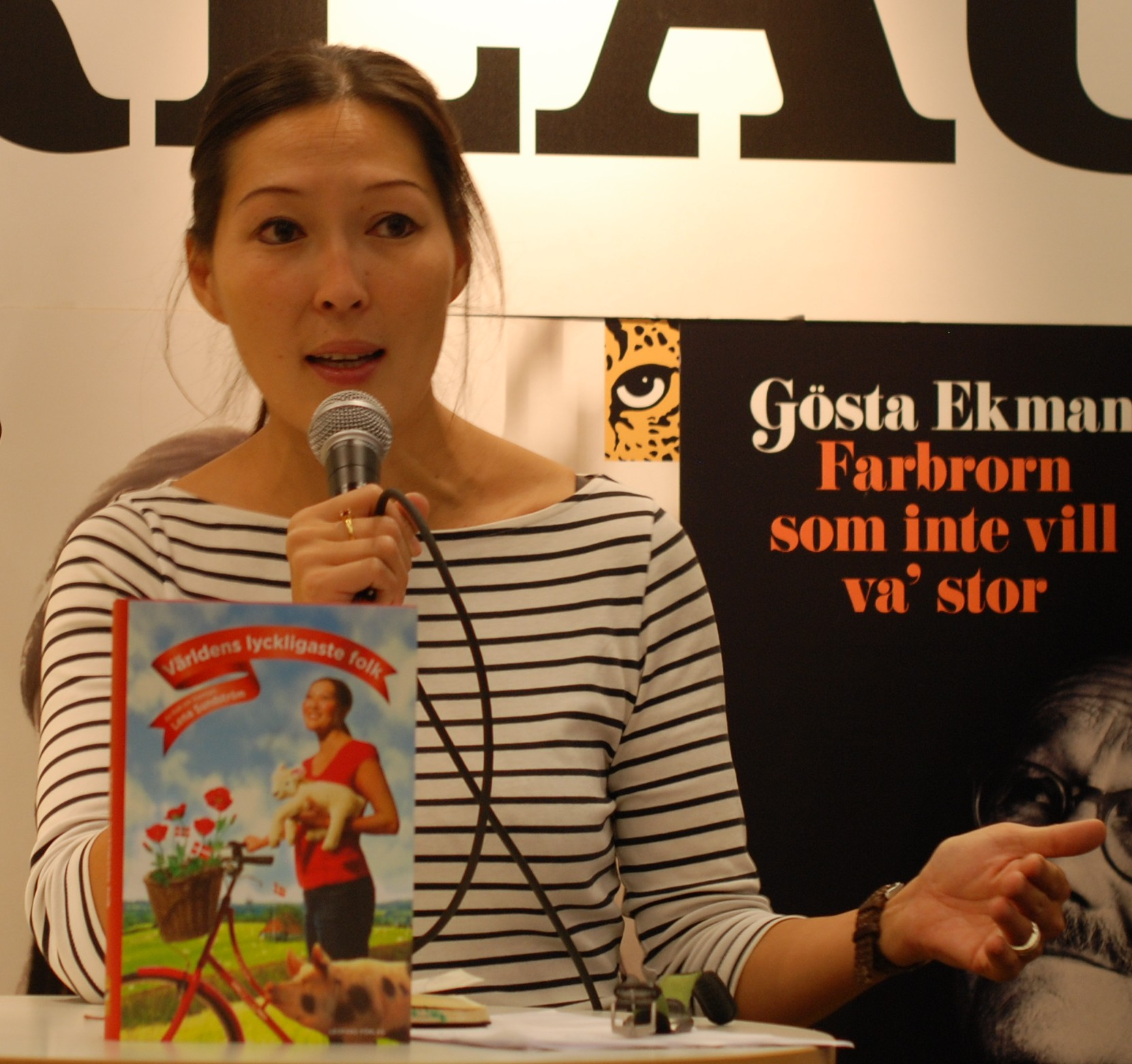 Swedish writer Lena Sundström at the Göteborg Book Fair 2010